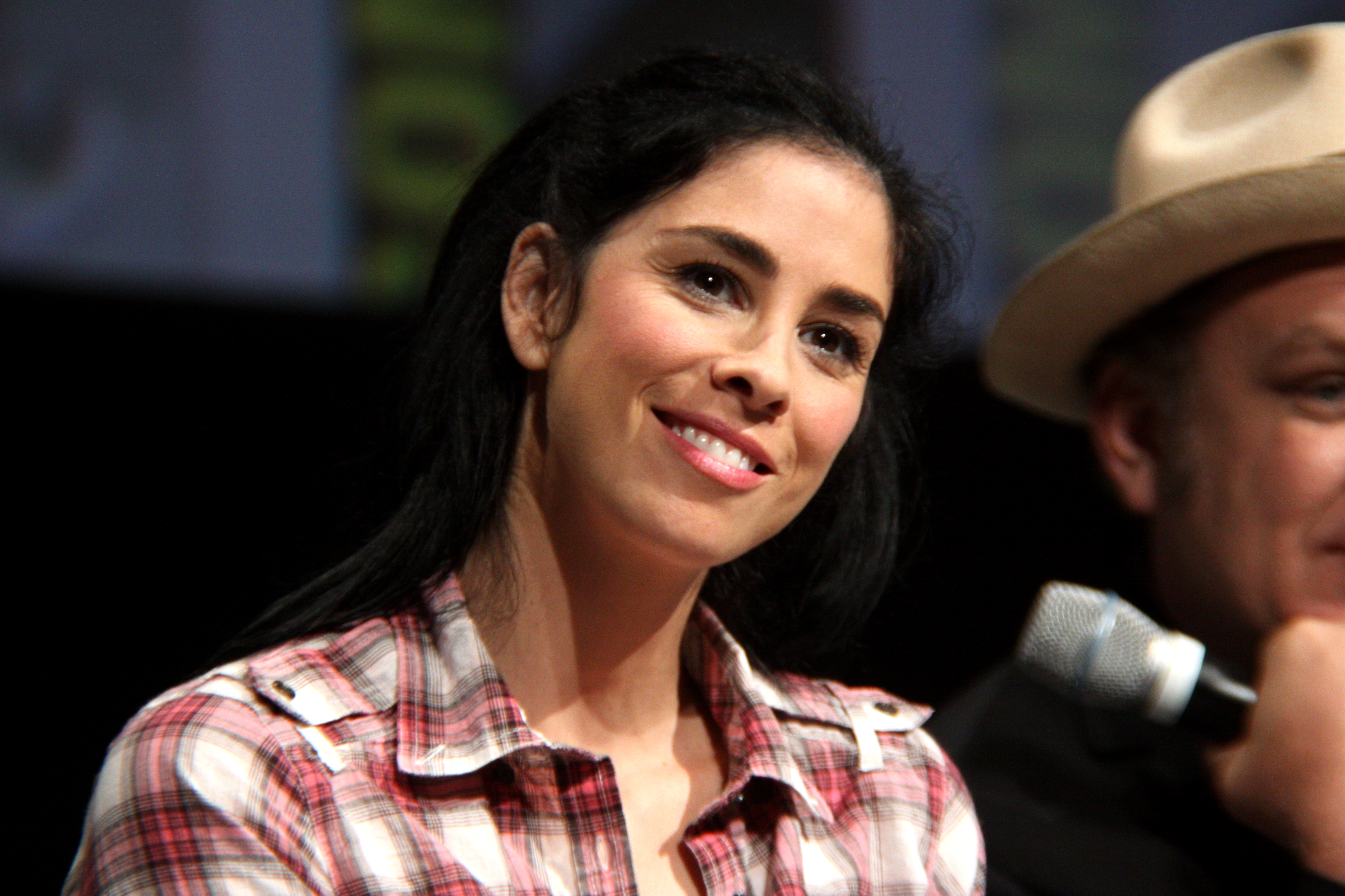 Sarah Silverman speaking at the 2012 San Diego Comic-Con International in San Diego, California.